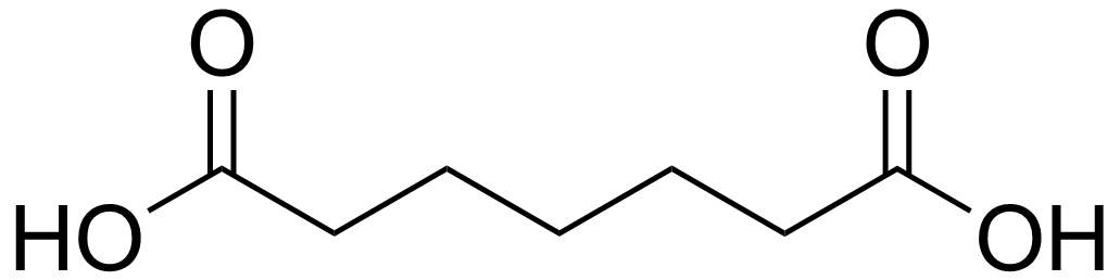 Chemical structure of Pimelic acid created with ChemDraw.